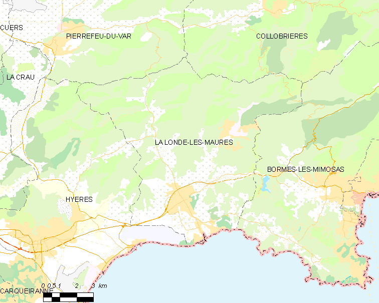 Map of French municipality La Londe-les-Maures